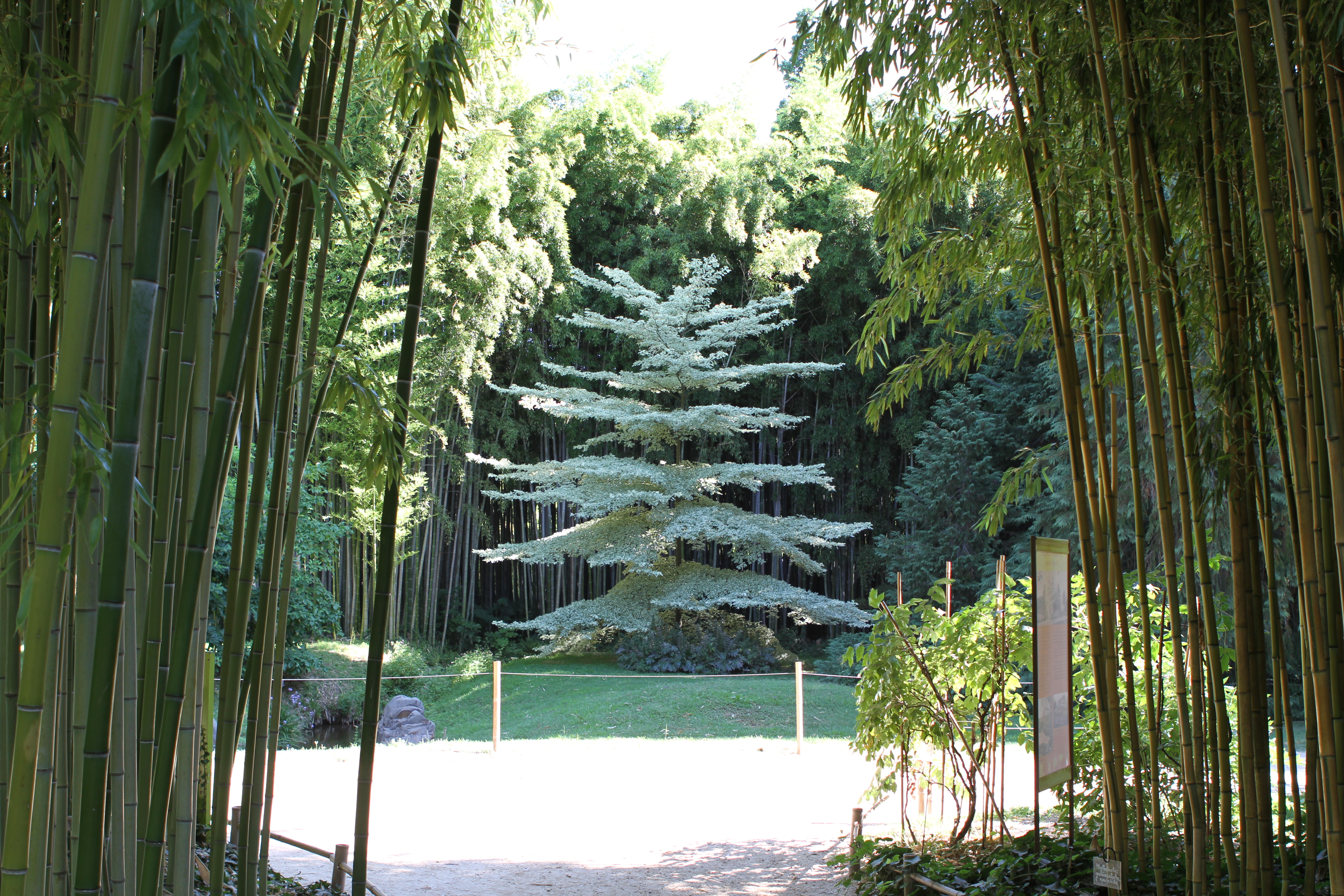 Cornus controversa, Bambouseraie de Prafrance (Gard, France)